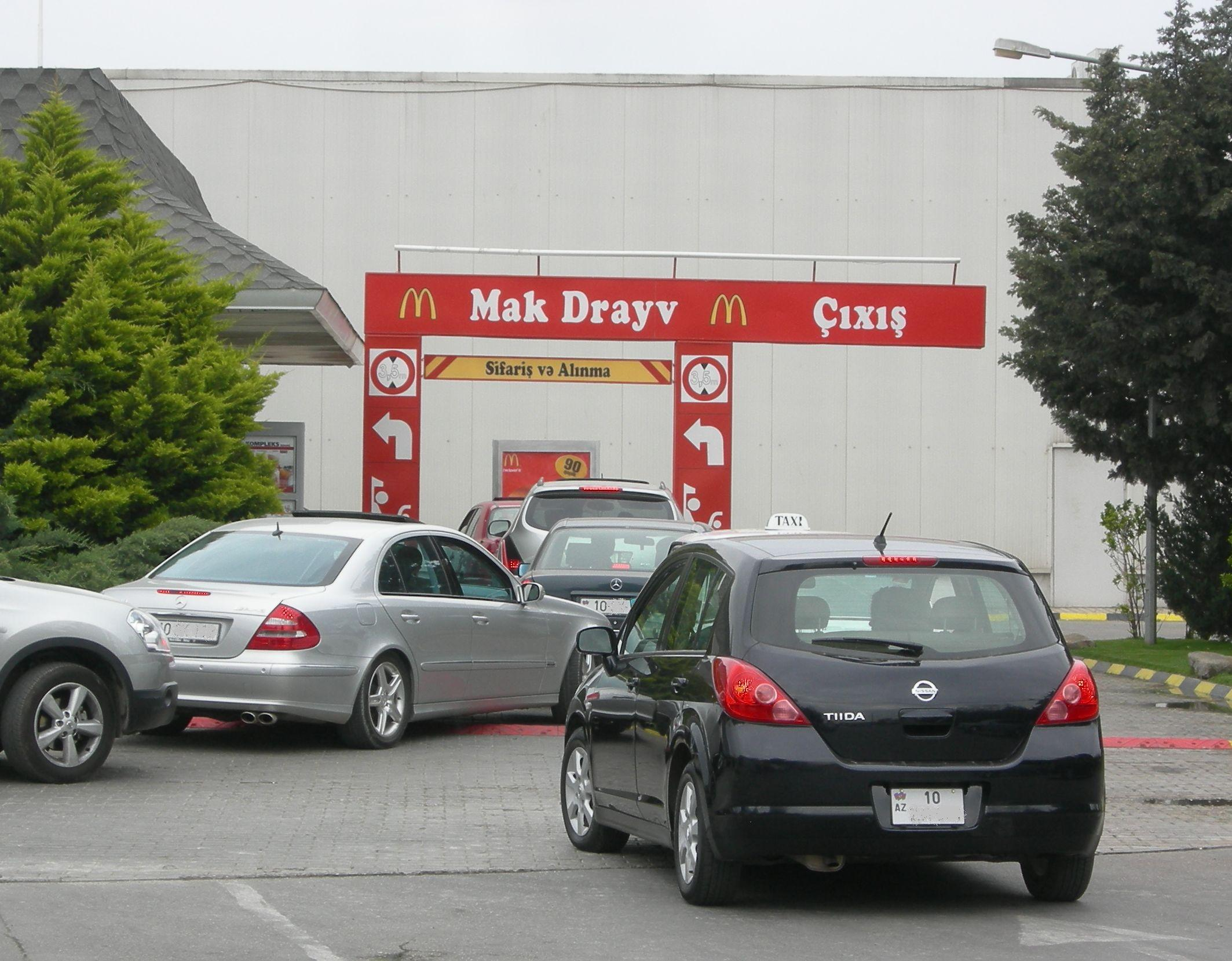 "Mak Drayv" (i.e. McDonald's McDrive), Baku, Azerbaijan